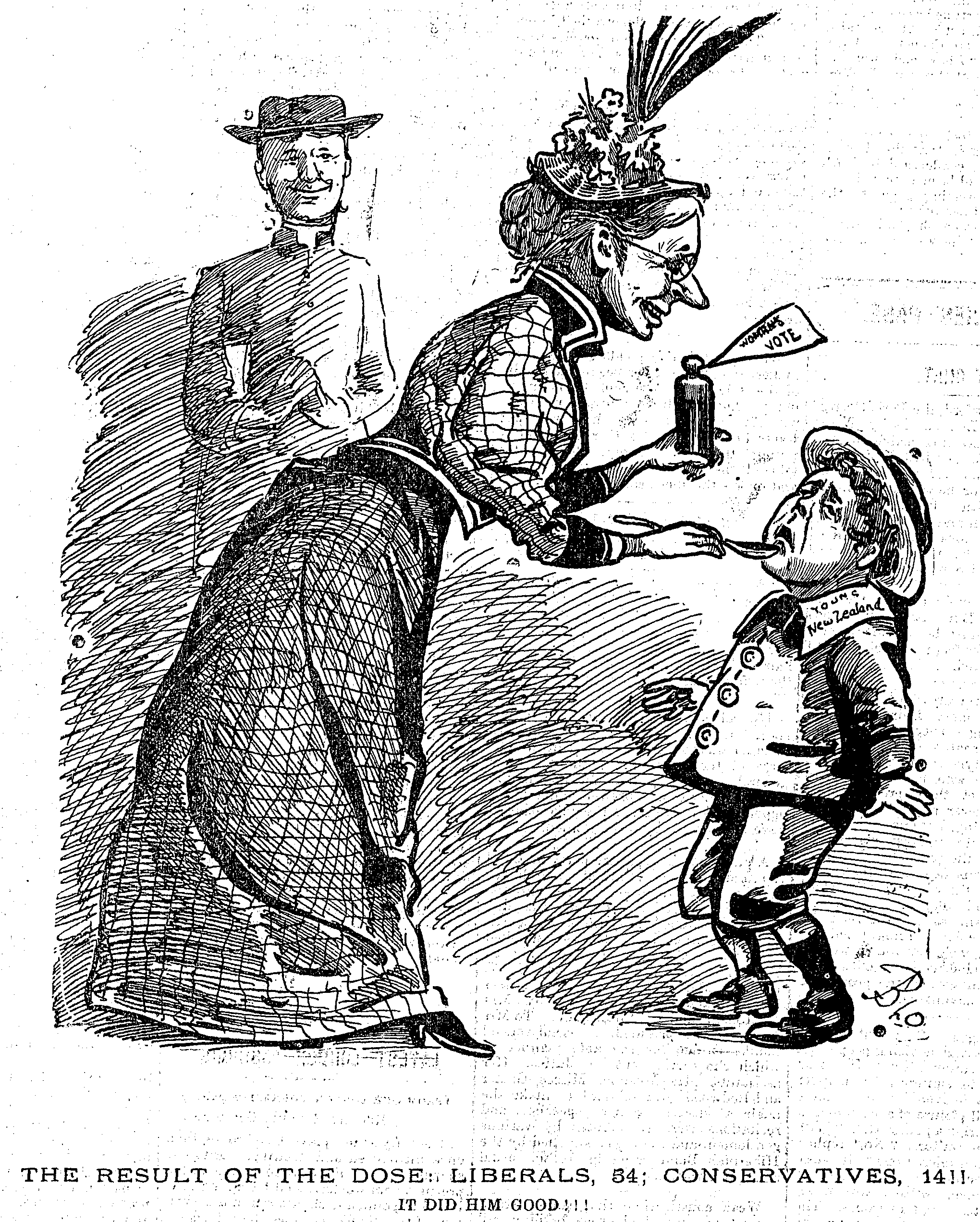 Depicts a woman spoon feeding "Woman's vote" to "Young New Zealand". The caption reads: "The result of the dose: Liberals, 54; Conservatives, 14!! It did him good!!" Refers to woman receiving the right to vote in New Zealand prior to the 1893 general election.